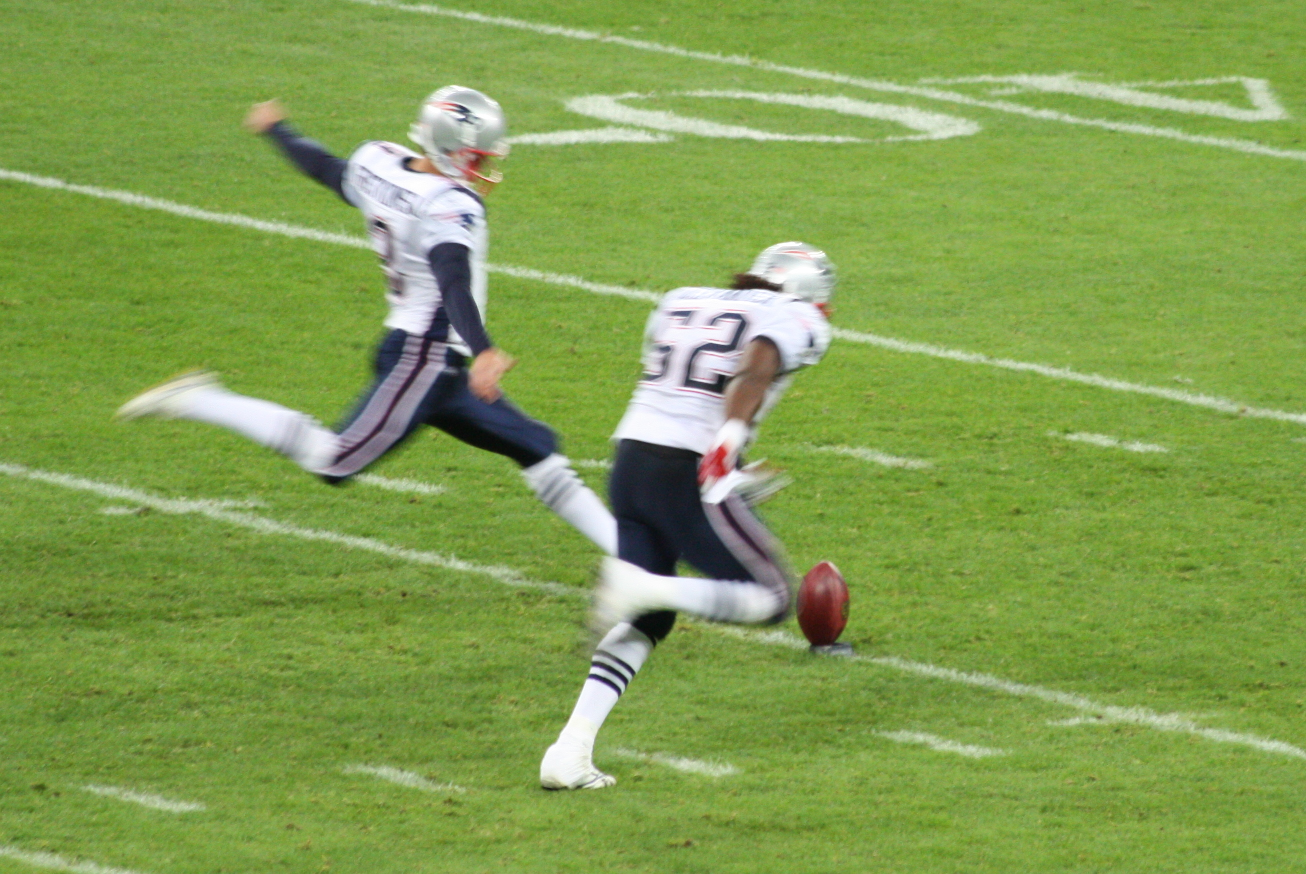 Stephen Gostkowski and Eric Alexander of the New England Patriots.